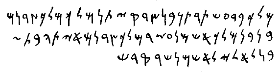 Phoenician inscriptions found on the Eshmun temple's Podium, it is attirbuted to king Bodashtart Licensing This is a faithful digital reproduction of an original two-dimensional work of art. The work of art itself is in the public domain for the following reason